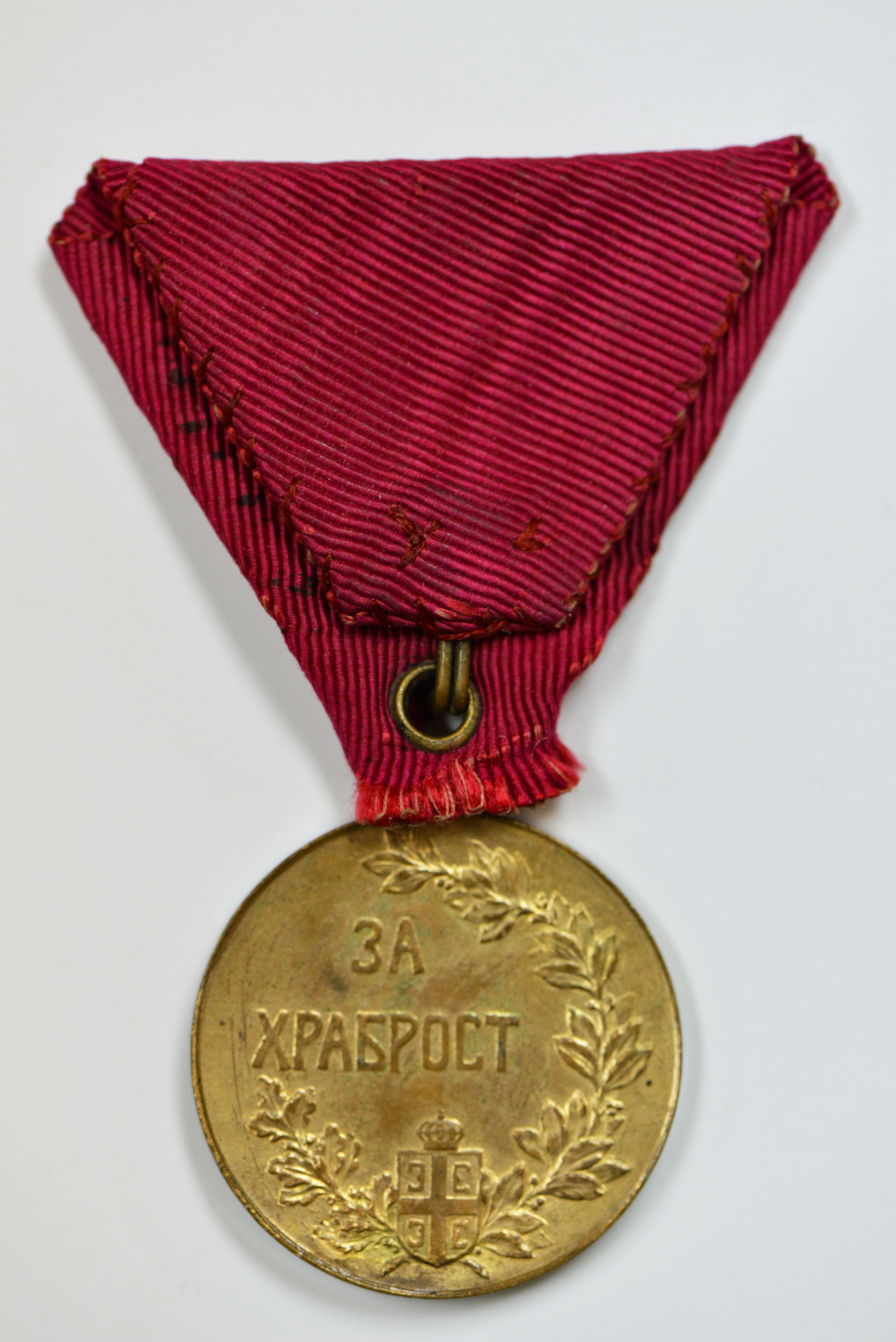 First type of Medal for Bravery of Kingdom of Serbia (author: Đorđe Jovanović) - reverse, Decorations collection, inventory number 308 Srpski (latinica): Prvi tip Medalje za hrabrost Kraljevine Srbije (autor: Đorđe Jovanović) - revers, Zbirka odlikovanja, inventarski broj 308